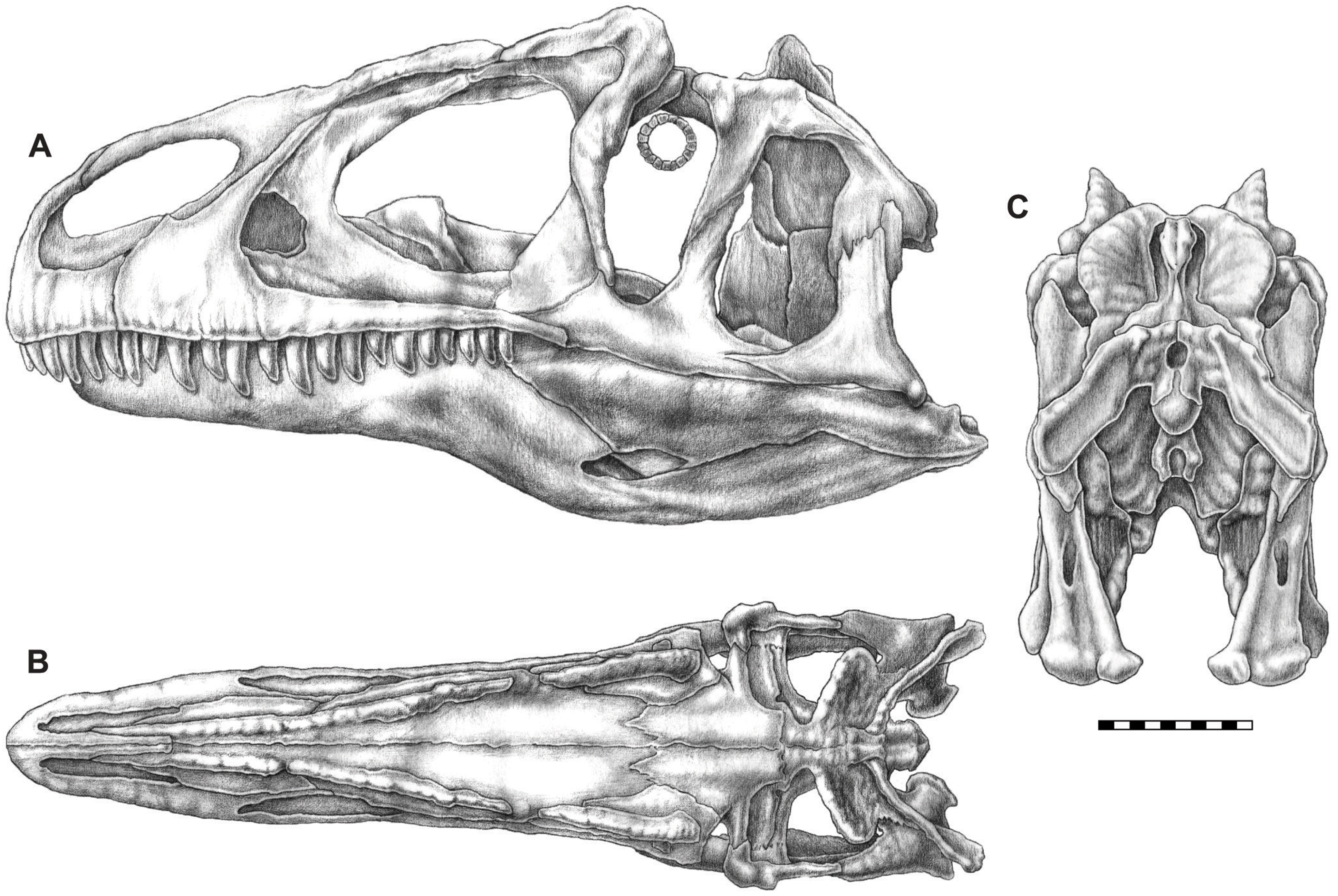 Idealized skull of Allosaurus jimmadseni in lateral (A), dorsal (B) and posterior (C) views.